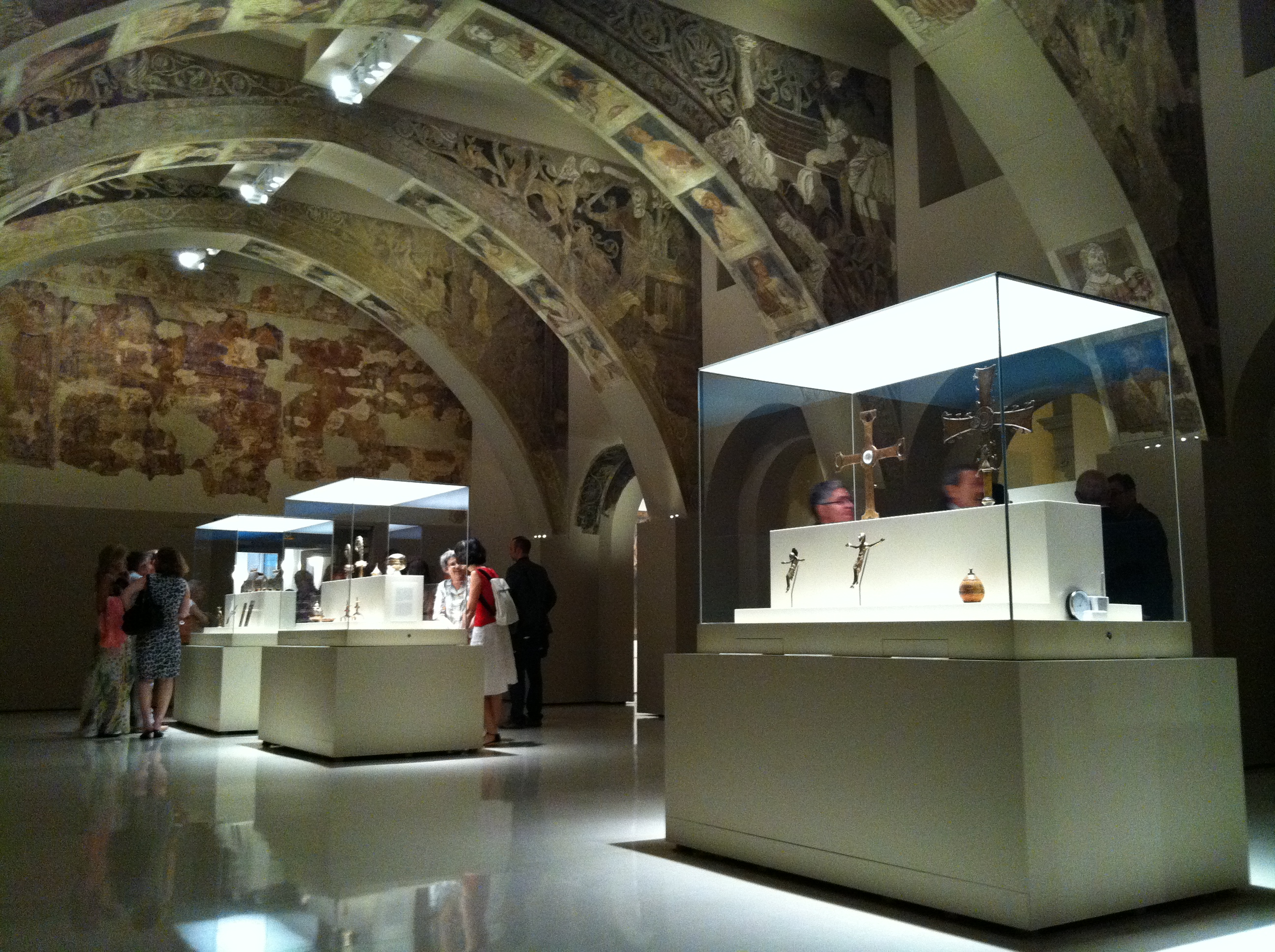 Reopening of the Romanesque collection of MNAC, Museu Nacional d'Art de Catalunya, in Barcelona